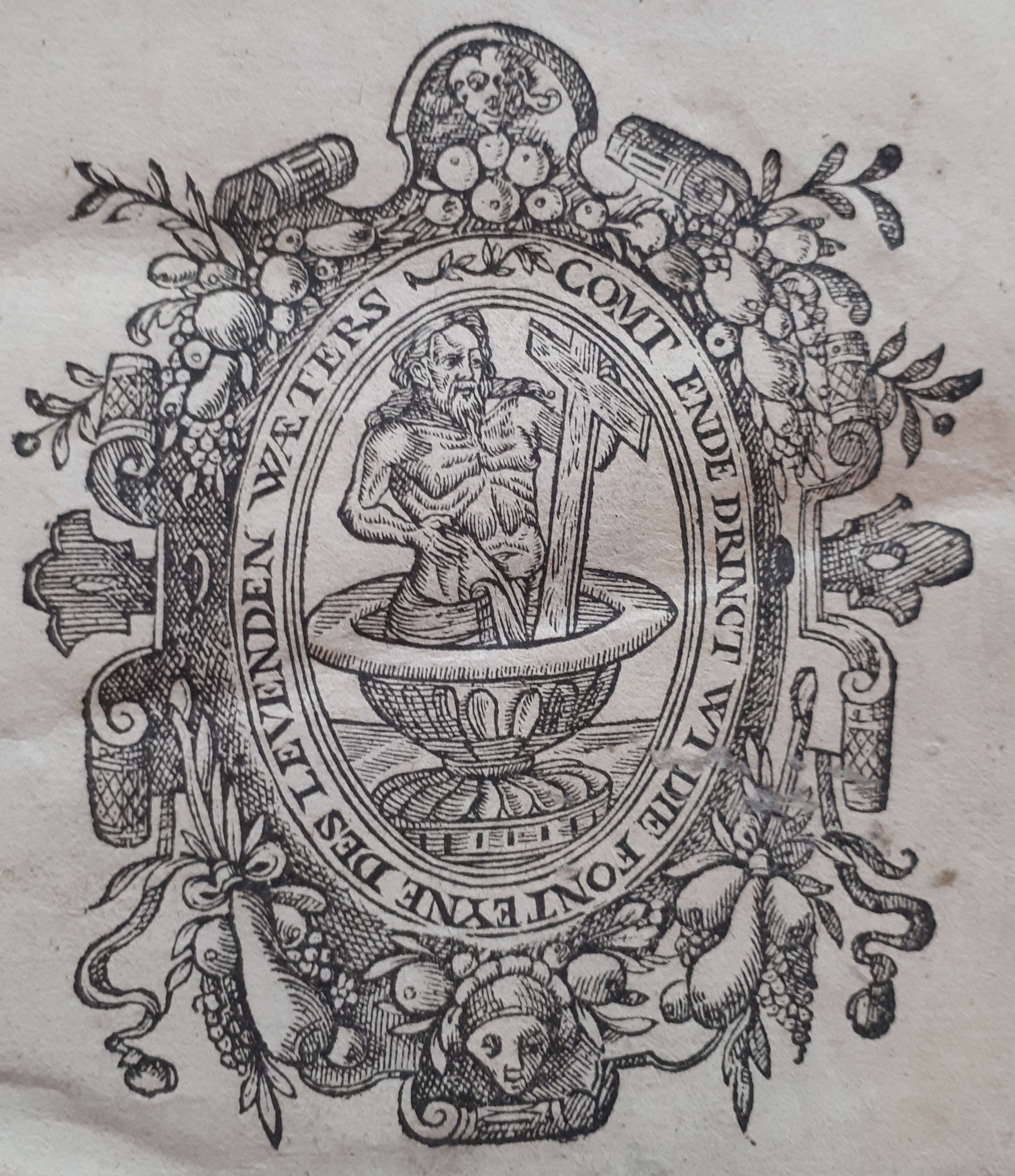 Printer's device Barent Adriaensz